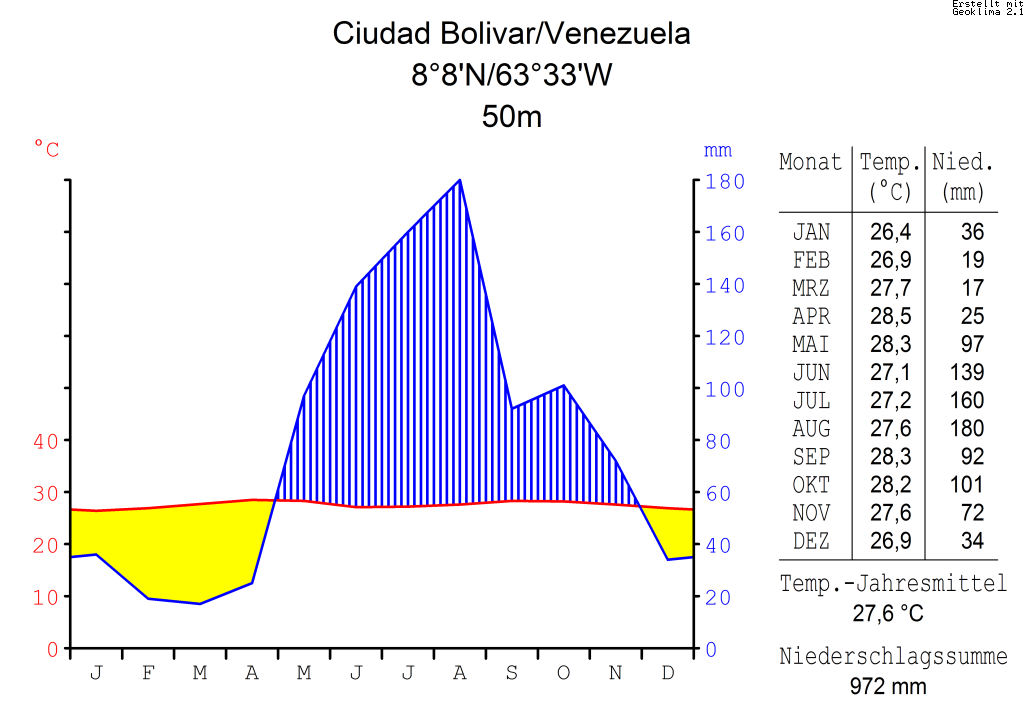 climate chart in the format by Walther and Lieth, metric, °Celsisus and millimeters, made with Geoklima 2.1